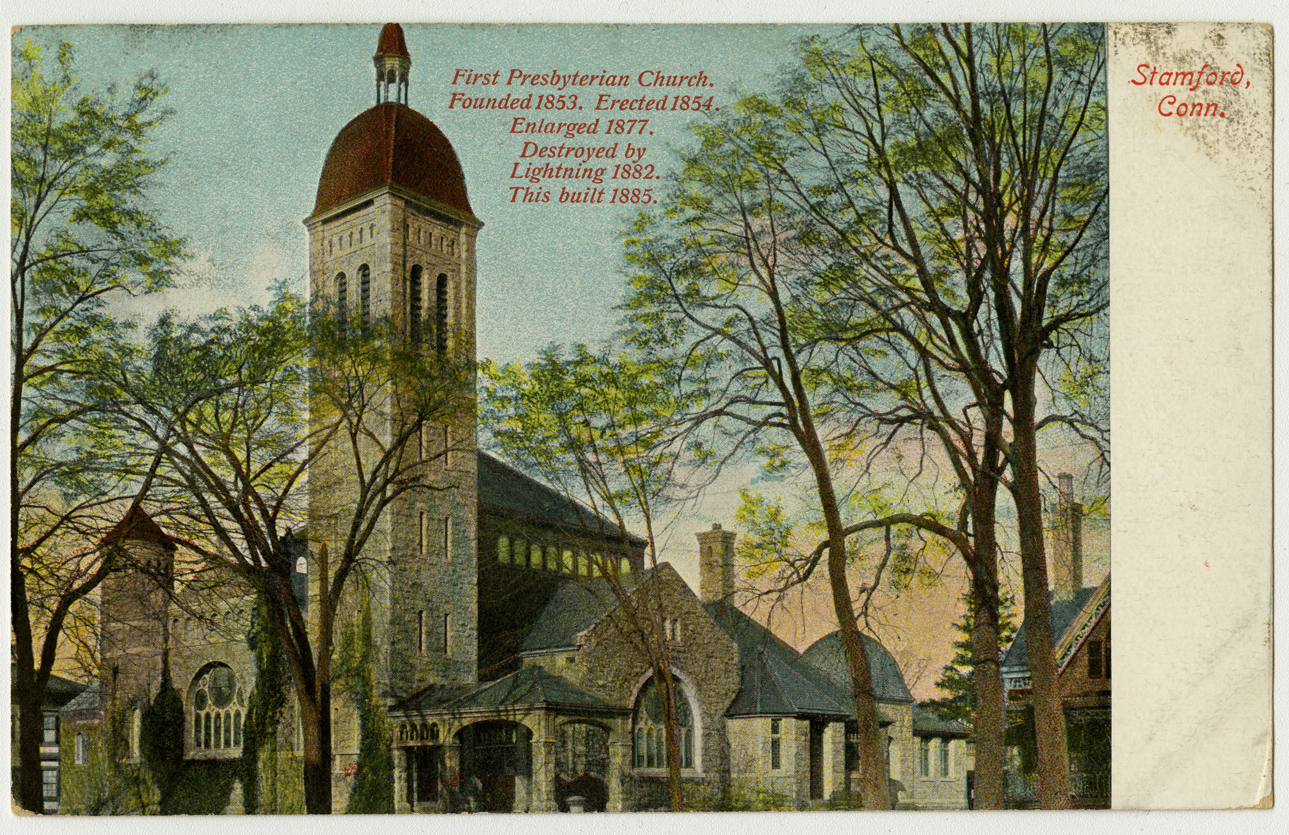 First Presbyterian Church in Stamford, Connecticut from a pre-1923 postcard From RG 428, Postcard Collection, Presbyterian Historical Society, Philadelphia, Pennsylvania.